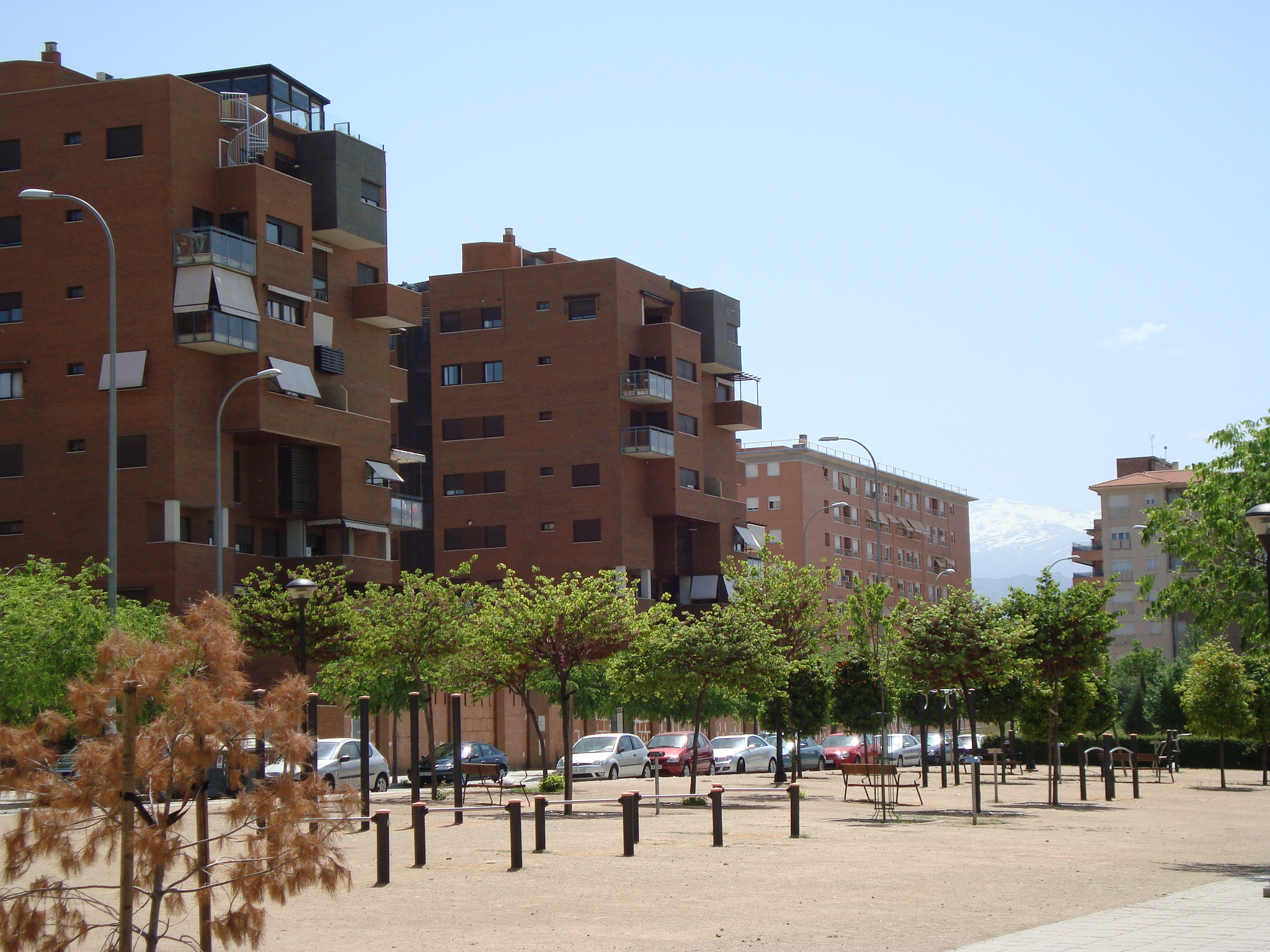 Edificios del Gran Parque Granada en Avenida Federico García Lorca.